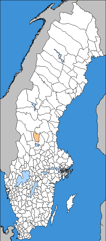 Orsa Municipality in Sweden